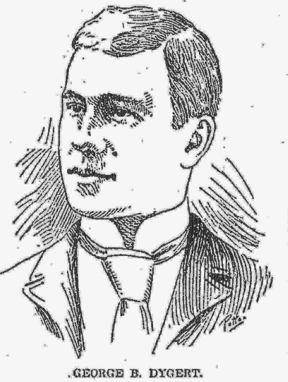 Drawing of George Dygert